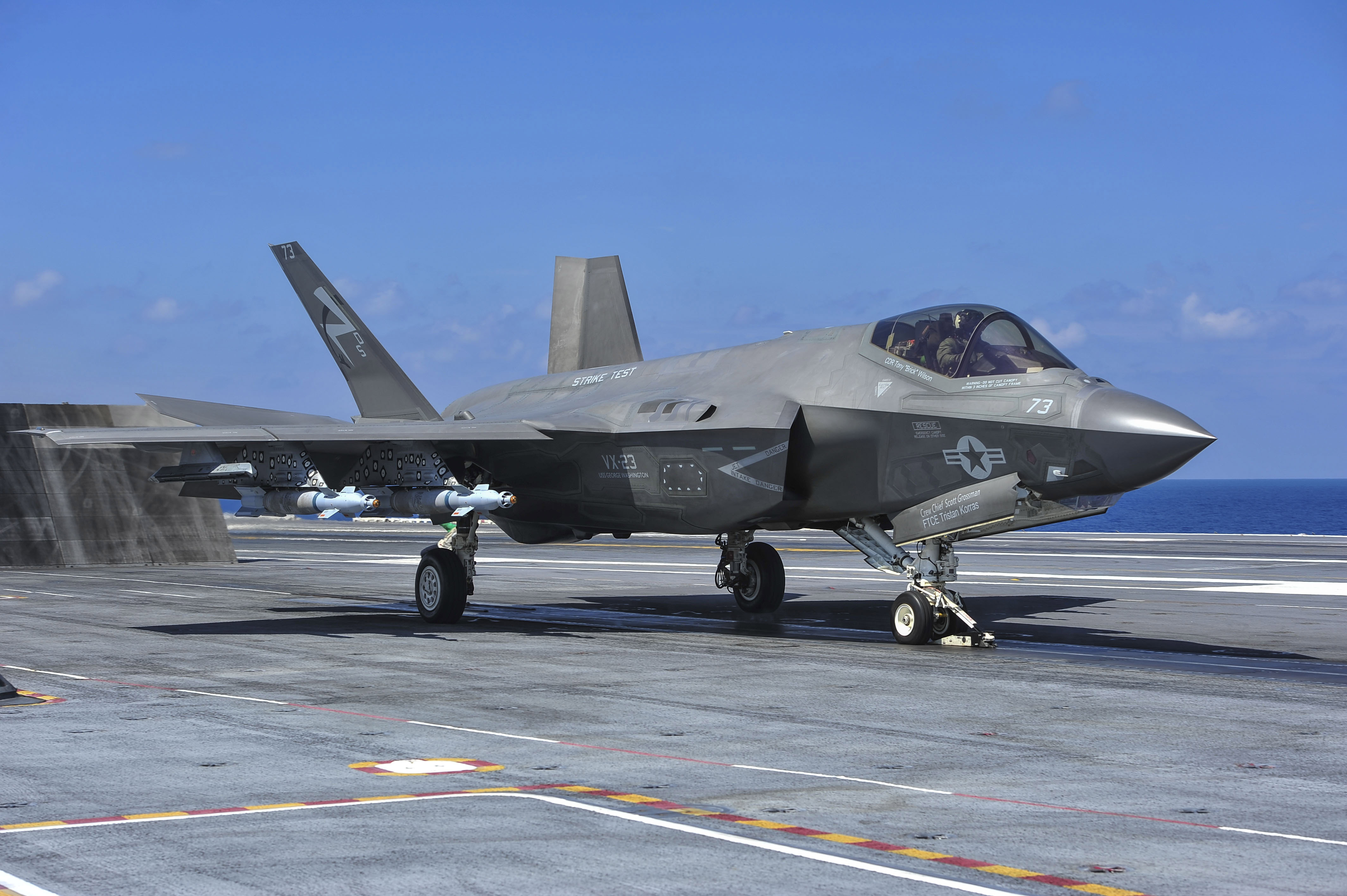 160819-N-GN619-047 ATLANTIC OCEAN (Aug. 19, 2016) An F-35C Lightning II carrier variant, assigned to the Salty Dogs of Air Test and Evaluation Squadron (VX) 23, launches off the flight deck of the aircraft carrier USS George Washington (CVN 73). VX-23 is conducting its third and final developmental test (DT-III) phase aboard George Washington in the Atlantic Ocean. The F-35C is expected to be Fleet operational in 2018. (U.S. Navy photo by Mass Communication Specialist 2nd Class Kris R. Lindstrom)